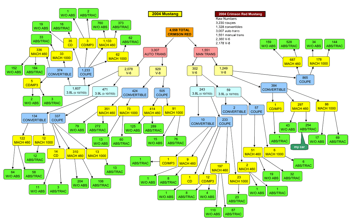 2004 Crimson Red Mustang Breakdown Captioned As { }